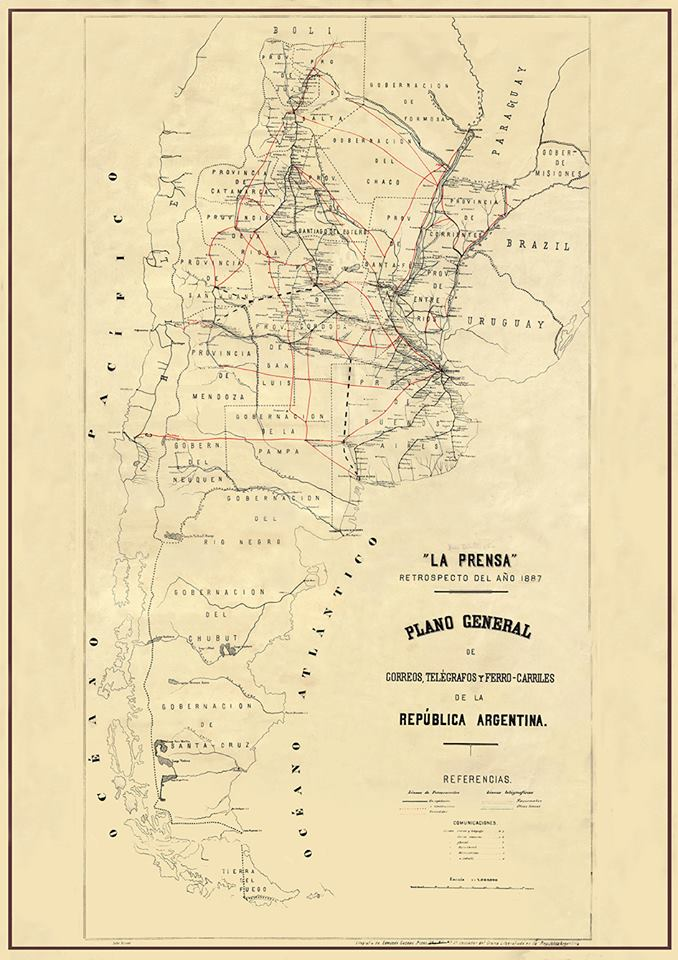 Map of the entire Argentine post service network.